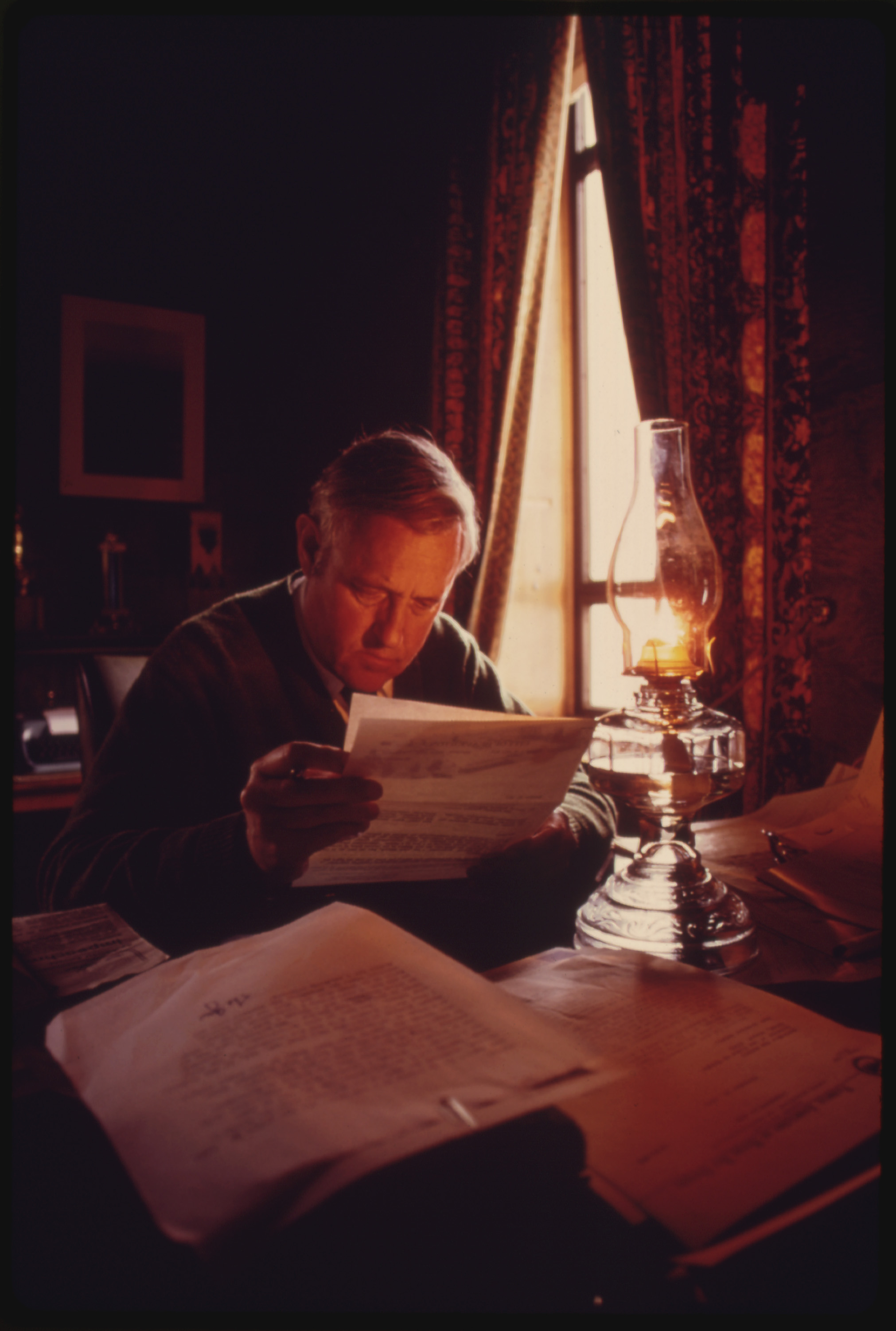 Original Caption: Oregon Governor Tom Mccall Used a Kerosene Lamp in His Office to Read Mail as a Method to Get the Public's Attention Regarding the Seriousness of the Energy Crisis in the Pacific Northwest 11/1973 U.S. National Archives’ Local Identifier: 412-DA-12978 Photographer: Falconer, David Subjects: Salem (Marion county, Oregon, United States) inhabited place Environmental Protection Agency Project DOCUMERICA Persistent URL: Repository: Still Picture Records Section, Special Media Archives Services Division (NWCS-S), National Archives at College Park, 8601 Adelphi Road, College Park, MD, 20740-6001. For information about ordering reproductions of photographs held by the Still Picture Unit, visit: Reproductions may be ordered via an independent vendor. NARA maintains a list of vendors at Buy copies of selected National Archives photographs and documents at the National Archives Print Shop online: Access Restrictions: Unrestricted Use Restrictions: Unrestricted